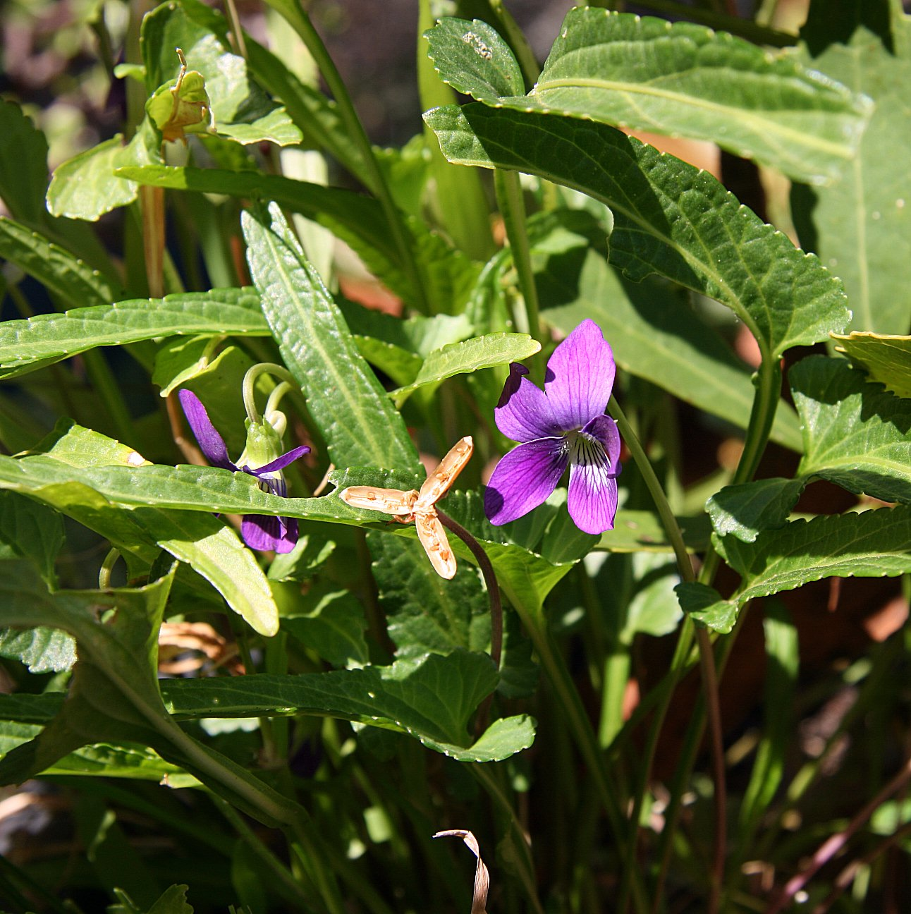 Viola betonicifolia growing out of a pot in my garden in the morning sun